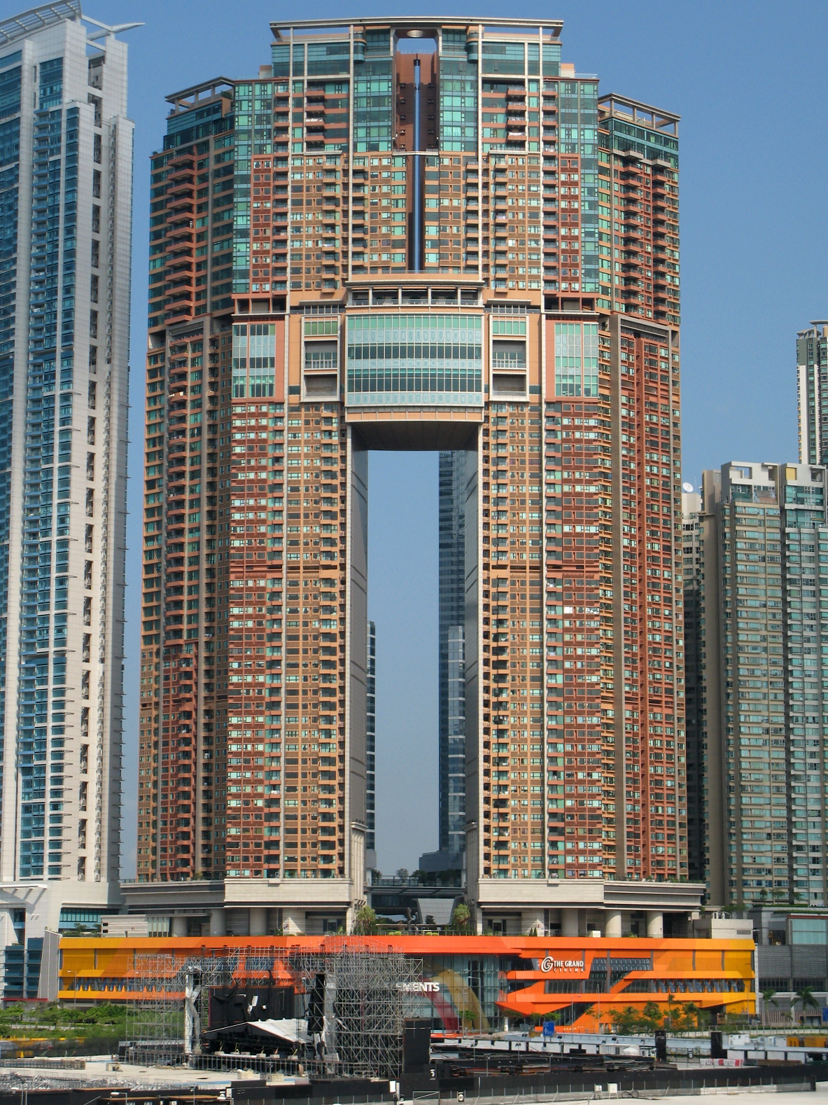 HK The Arch Overview 凱旋門 (香港)